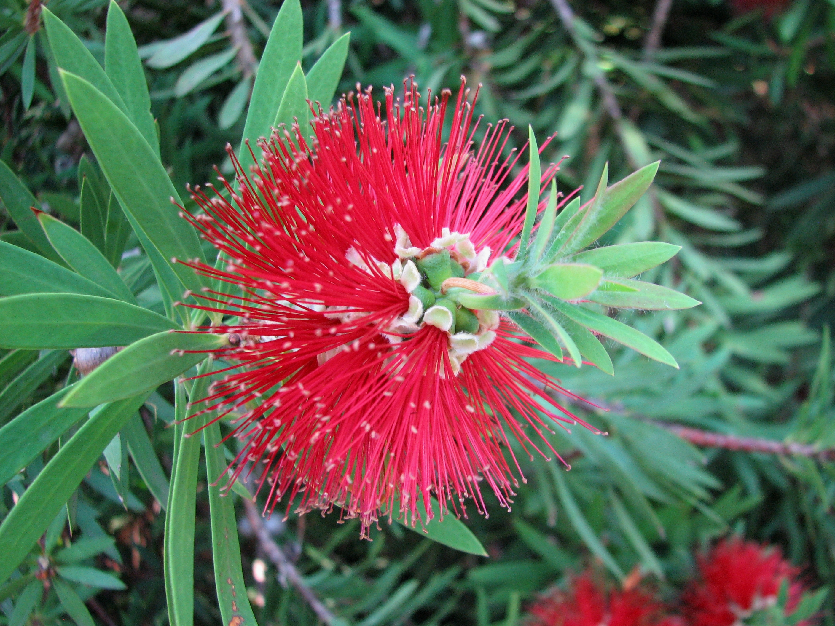 Callistemon montanus (cultivated, labelled) , Maranoa Gardens, Balwyn, Victoria, Australia